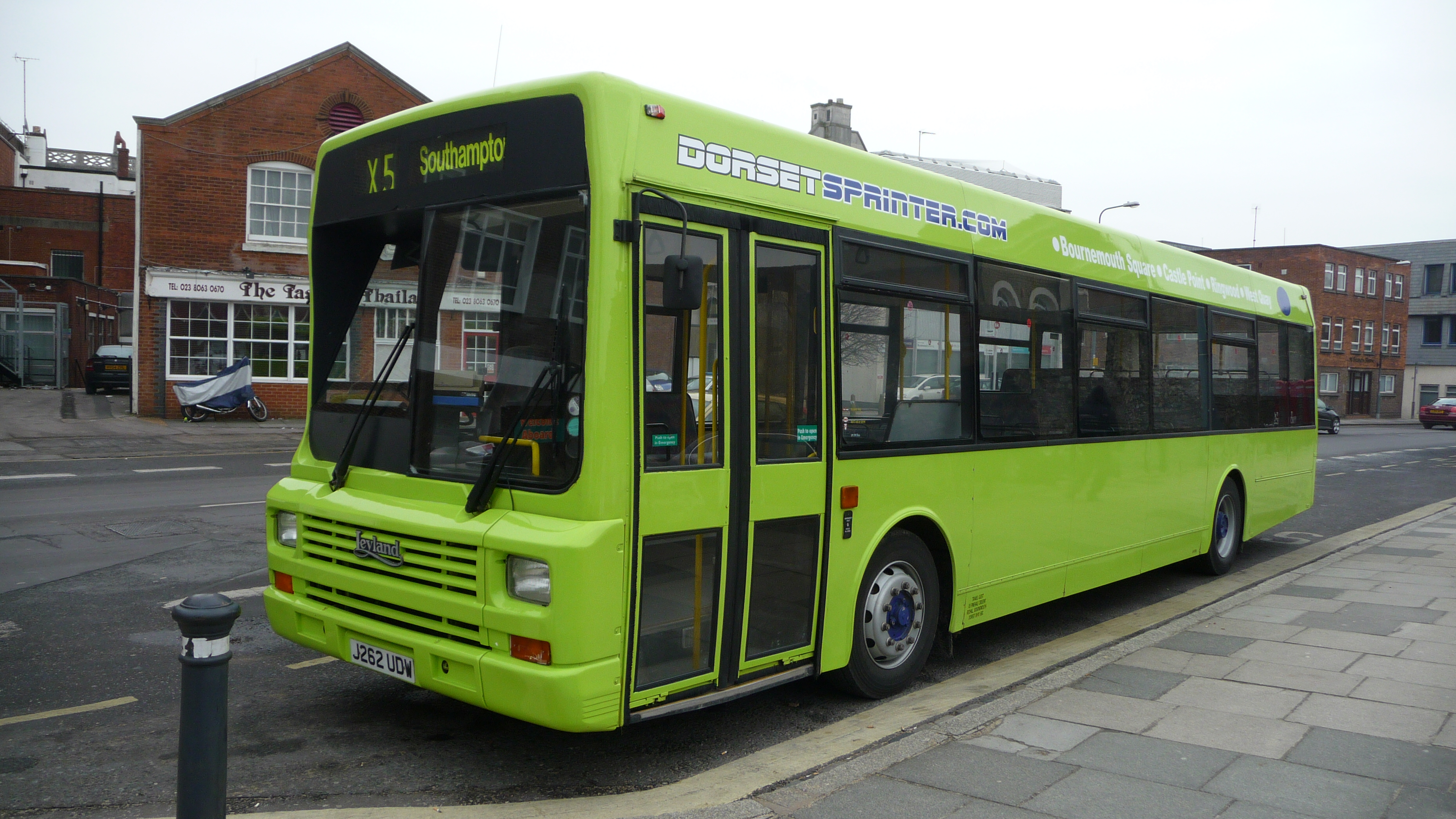 Travelguest, trading as Dorset Sprinter J262 UDW, a Leyland Lynx, in Castle Way, Southampton, laying over between duties. It was acquired from Cardiff Bus. You can see the Cardiff Bus "Welcome Aboard" sticker on the cab door particually well in this image.